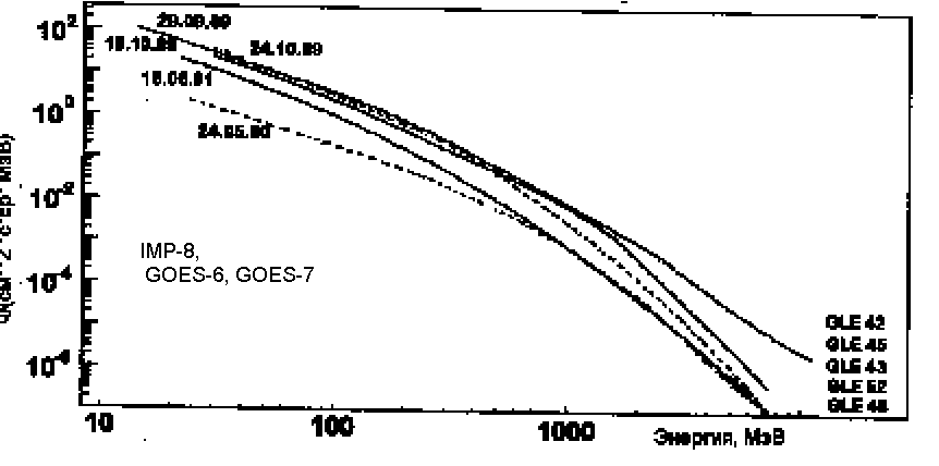 Комбіновані спектри, отримані для деяких найпотужніших подій СКП. Видно, що спектр неможливо описати єдиним степеневим законом, максимальна енергія в цих подіях перевищує 5 ГеВ